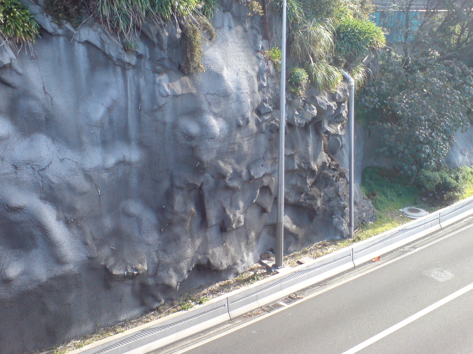 A shotcrete-stabilised cliff wall in Auckland City, New Zealand. Located near Auckland Grammar.